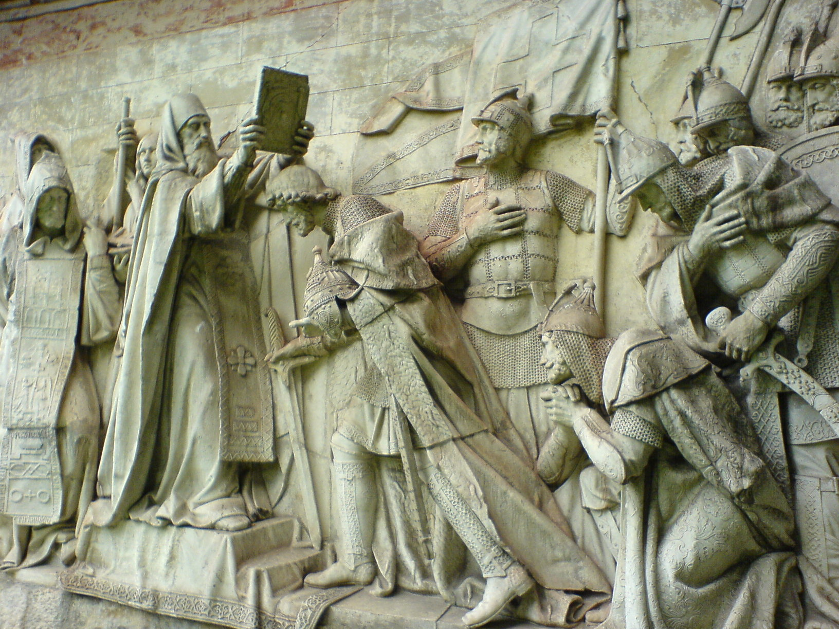 A preserved part of the original Christ the Saviour Cathedral, Donskoy Monastery, Moscow